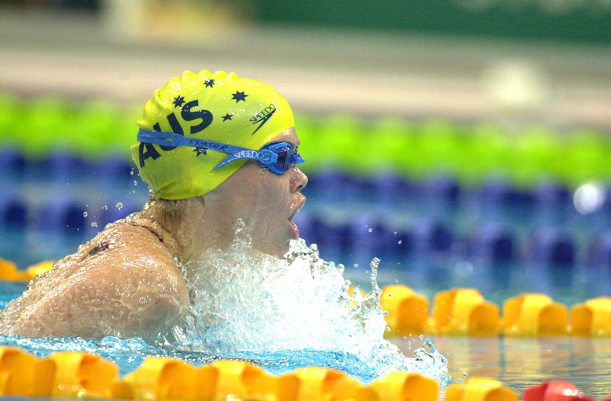 Action shot of Australian swimmer Amanda Fraser during the 200m medley SM7 event, 2000 Sydney Paralympic Games, Day 02